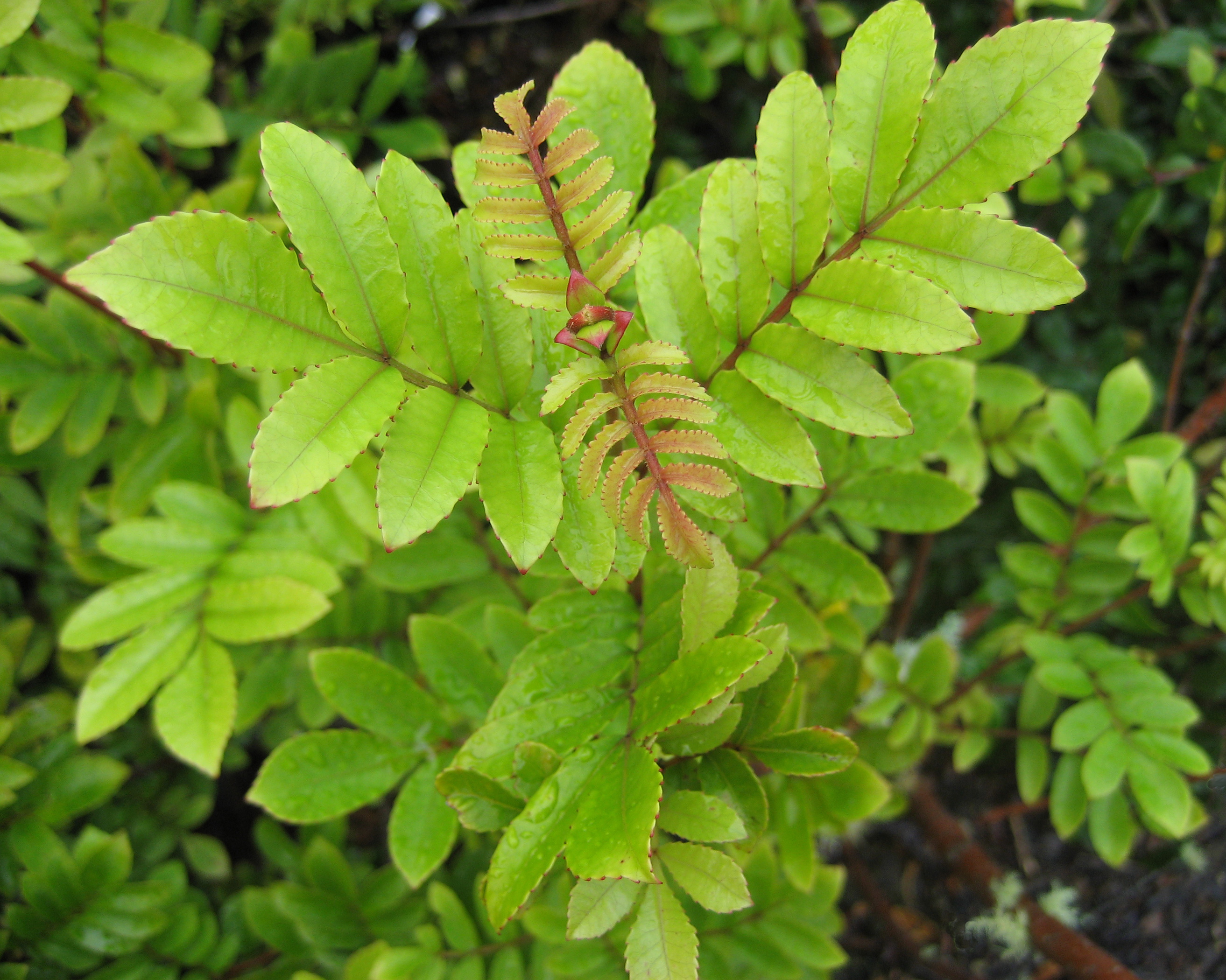 juvenile foliage of Tōwai or Tawhero, (Weinmannia silvicola), (Cunoniaceae), a tree of the north of the North Island of New Zealand.